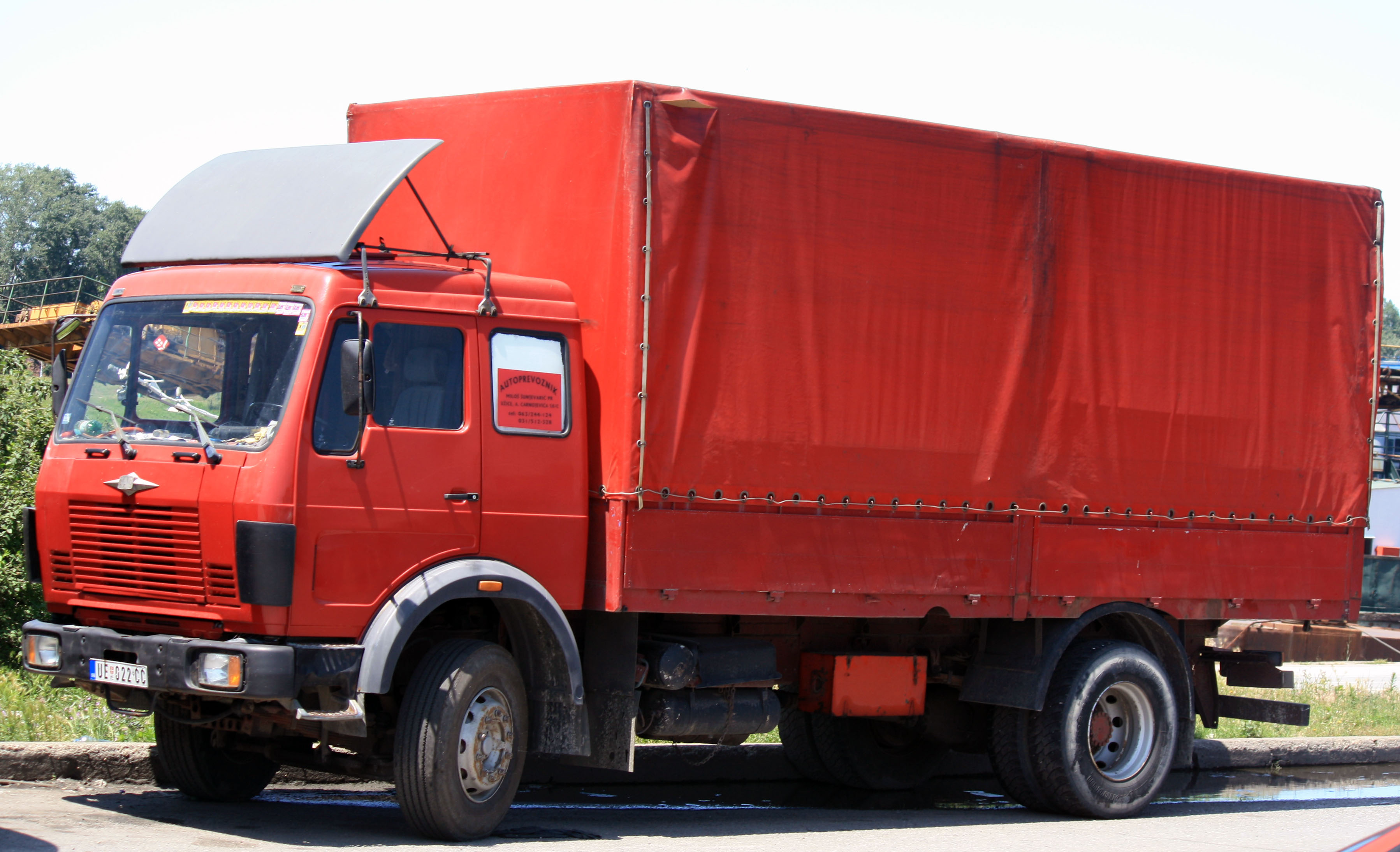 FAP 1620 truck in Belgrade.